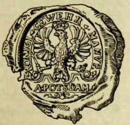 Seal of the Prussian Rifle Factory Potsdam